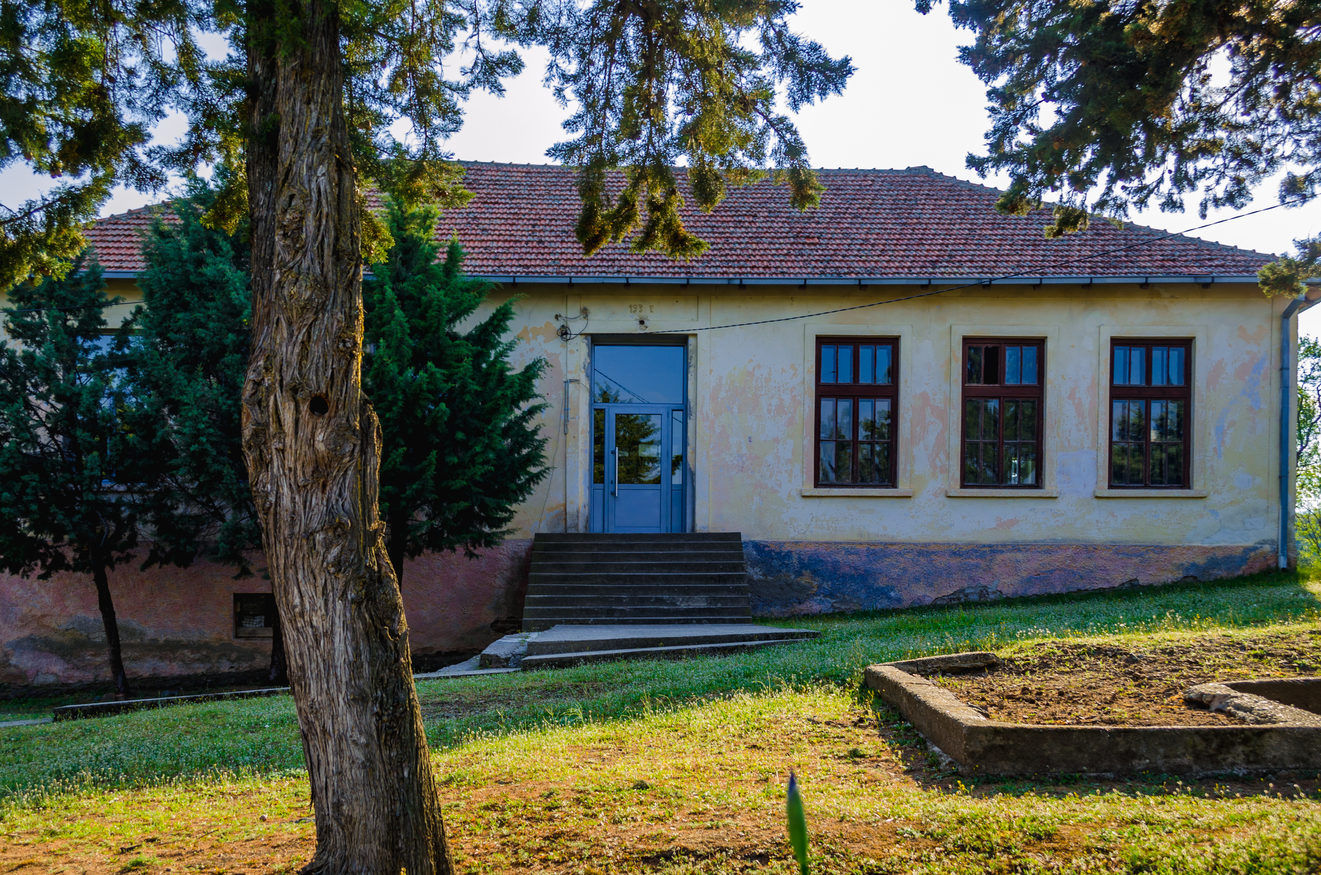 Primary school in the village Smokvica